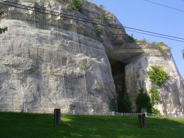 Subject: The St. Peter Sandstone formation in Pacific, Missouri, with a cap of St. Joachim dolomite. Caption: Pacific's signature bluff has been draped with a chain link curtain to keep rocks from falling onto traffic on historic U.S. Route 66 (Osage Street) at its base. Source: This image was taken on July 31, 2004, by User:Kbh3rd for use on Wikipedia. Location